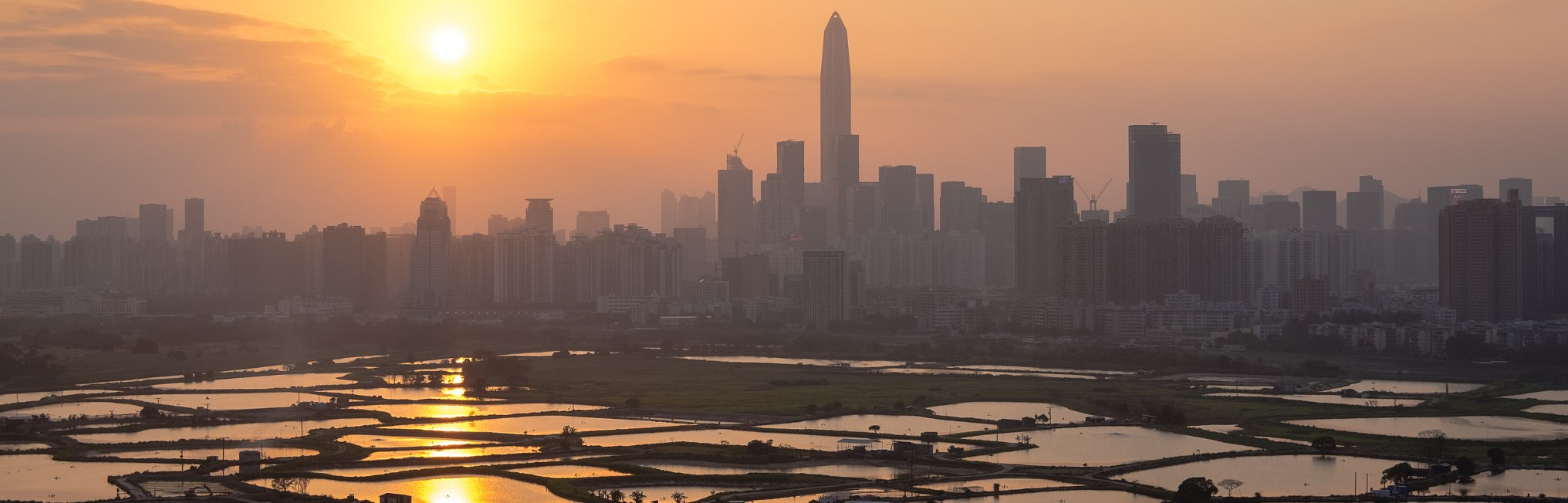 Shenzhen skyline viewed across Hong Kong wetlands (cropped image of pic previously uploaded to wikimedia by Benhui31.